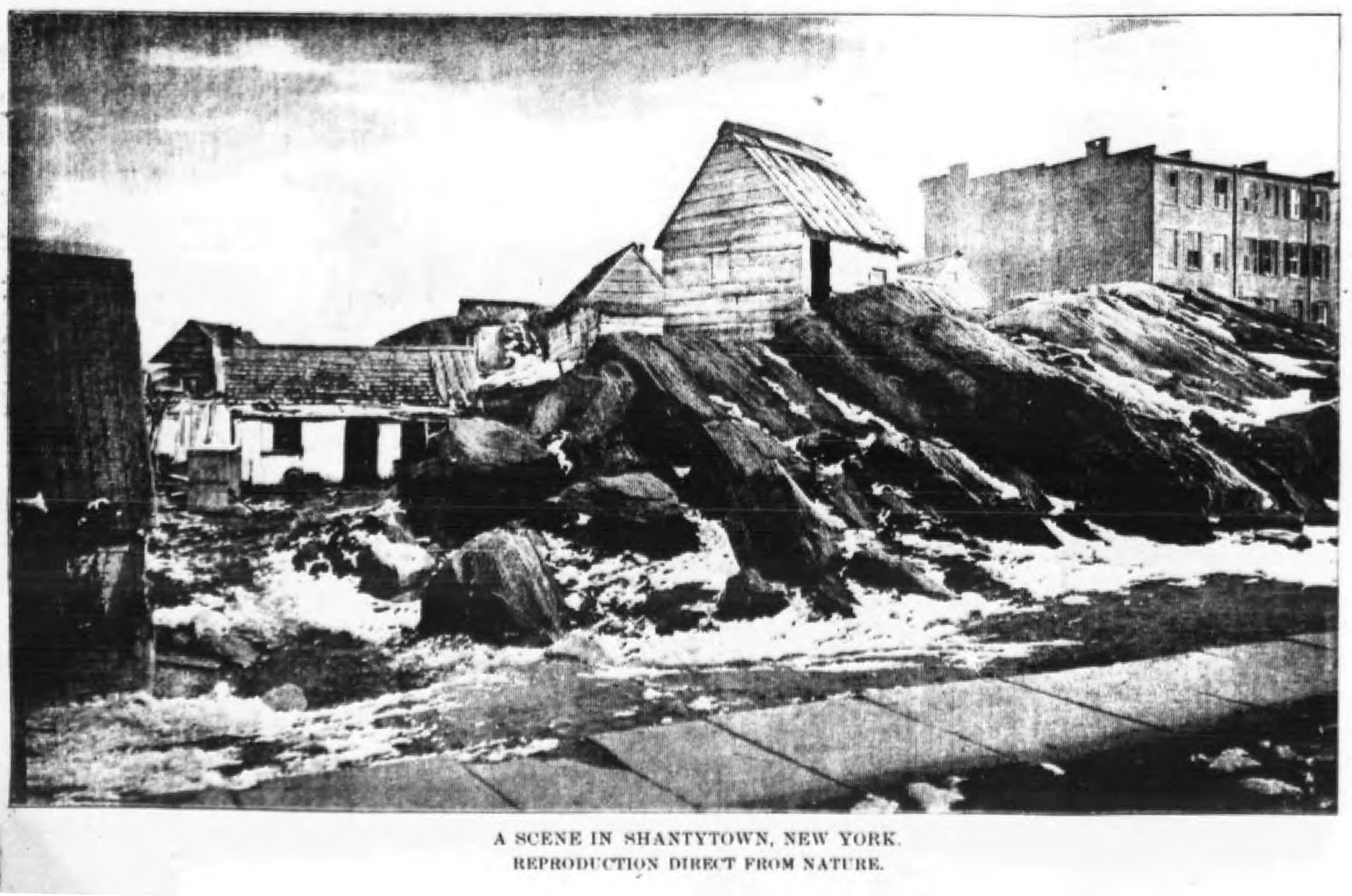 Photograph "A Scene in Shantytown, New York" appearing in the March 4, 1880 edition of the New York Daily Graphic, the first halftone photograph reproduced in a newspaper.